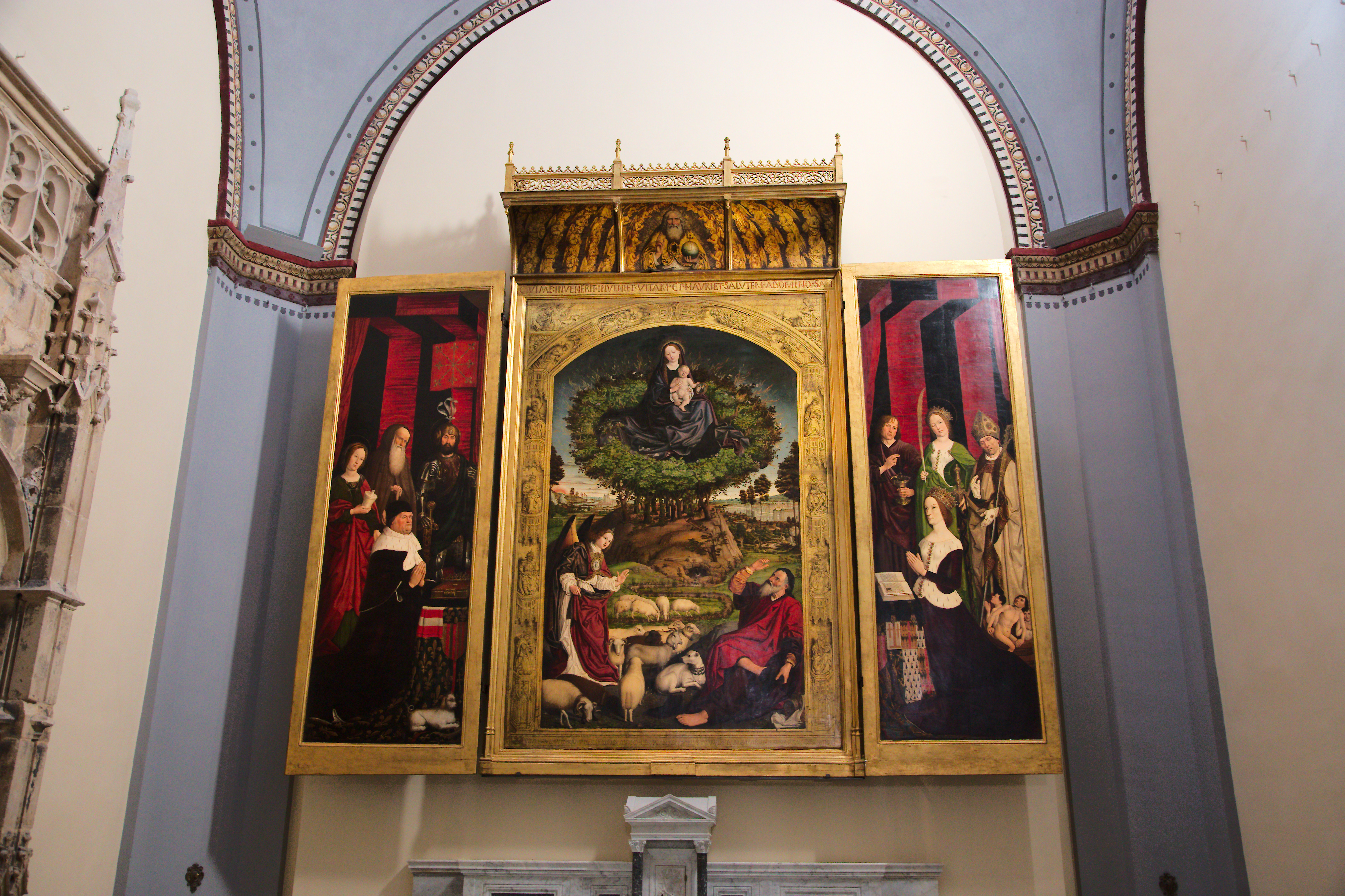 Interior of the cathedral in Aix-en-Provence